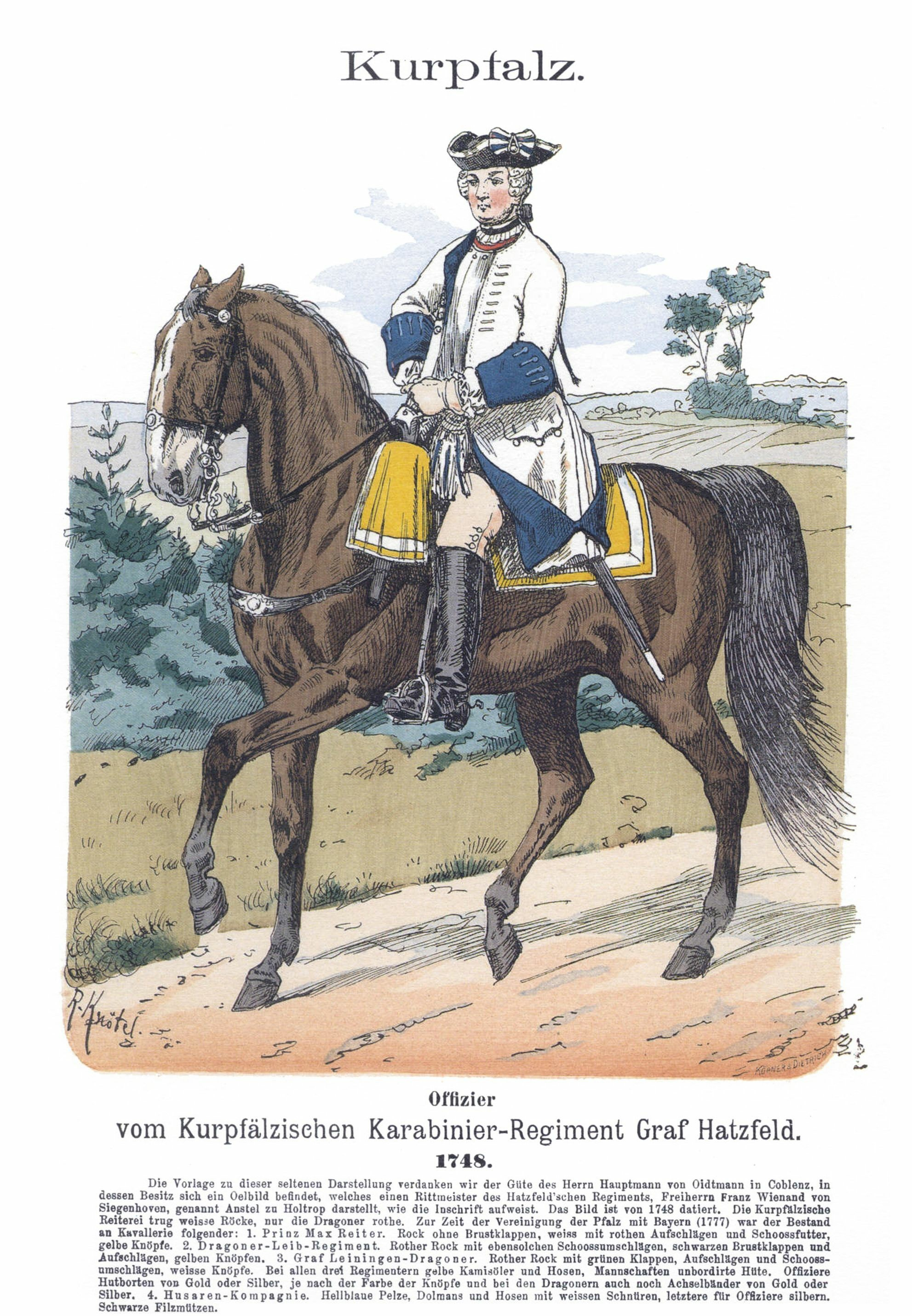 Kurpfalz.Kurpfälzisches Karabinier-Regiment Graf Hatzfeld. 1748